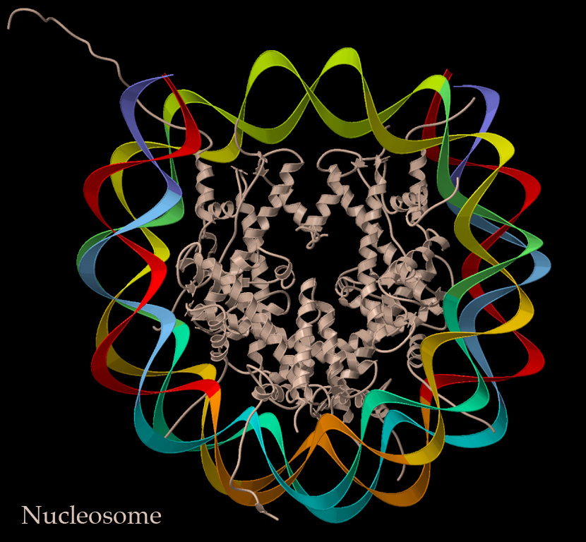 Ribbon schematic of the nucleosome structure. Histone proteins in the center are shown as tan ribbons with spiral alpha-helices; each DNA strand of the double-helix that wraps around the outside is colored from 5' end (blue) to 3' end (red). Coordinates from NDB file pd0001 (PDB 1AOI), graphics from KiNG.